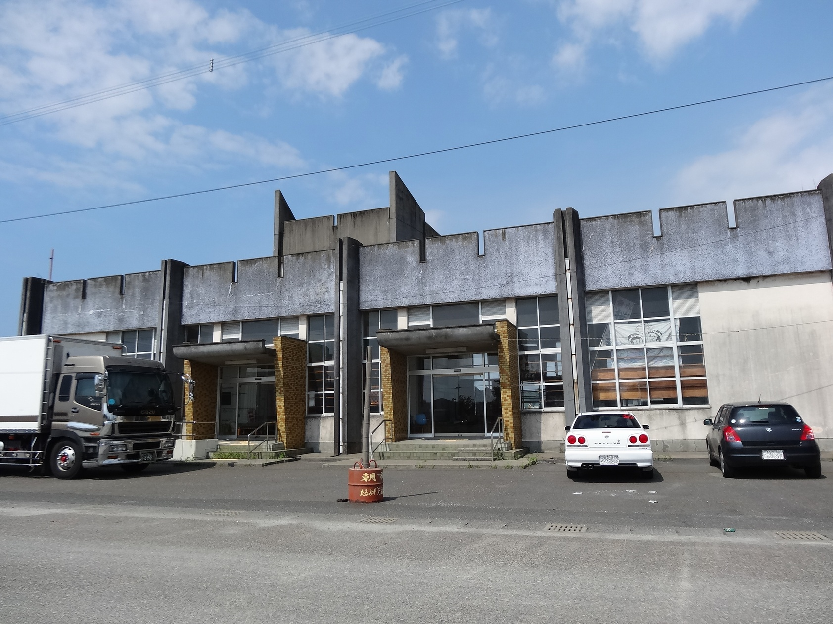 Old Tarumizu Ferry Terminal (? - 1998, Tarumizu City, Kagoshima, Japan)